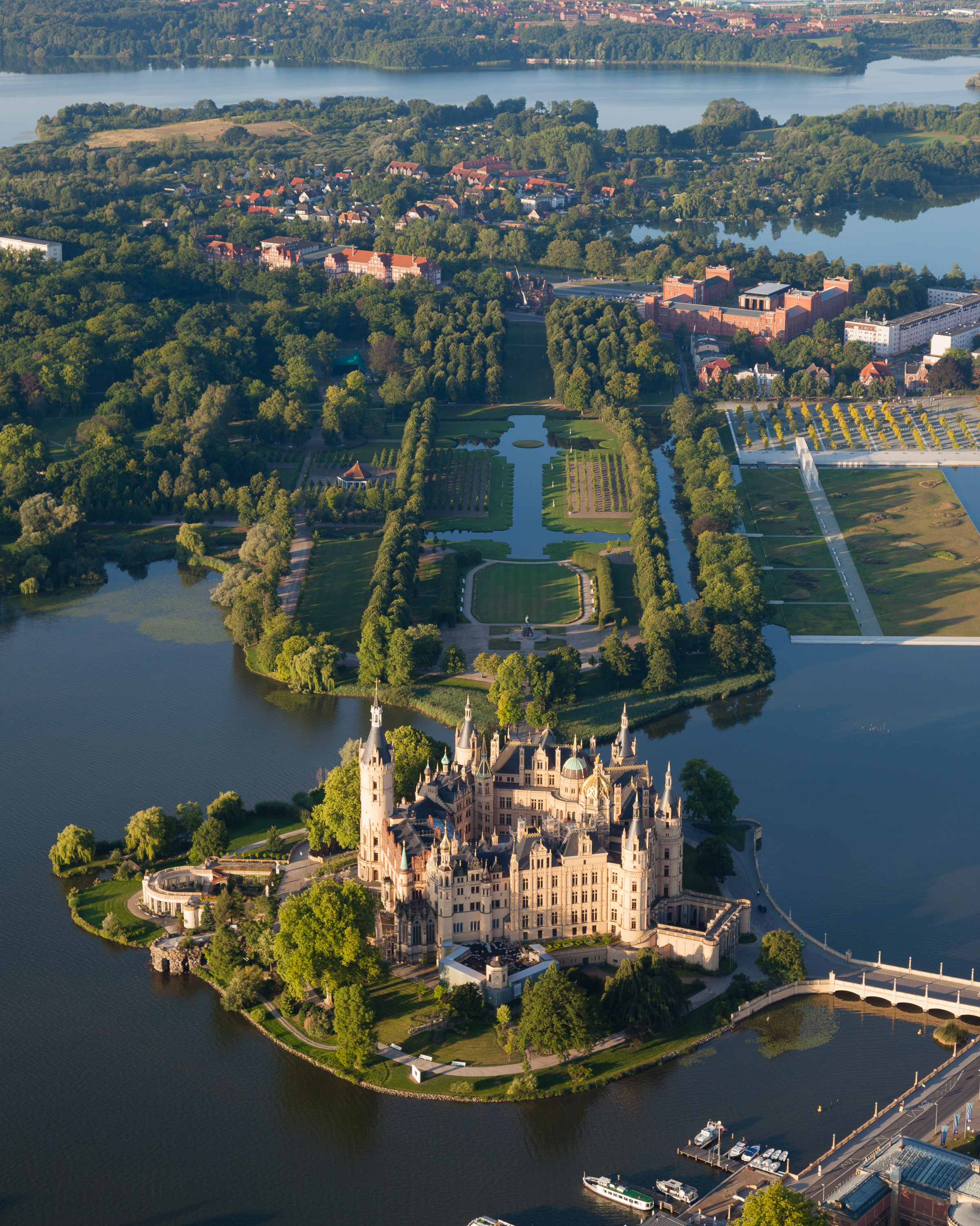 Schwerin Castle, aerial view